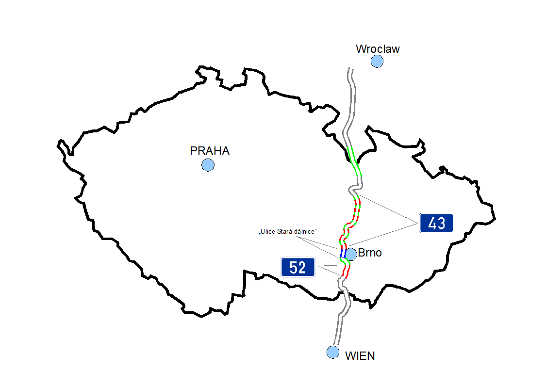 course of the unfinished exterritorial motorway Wien - Wroclaw